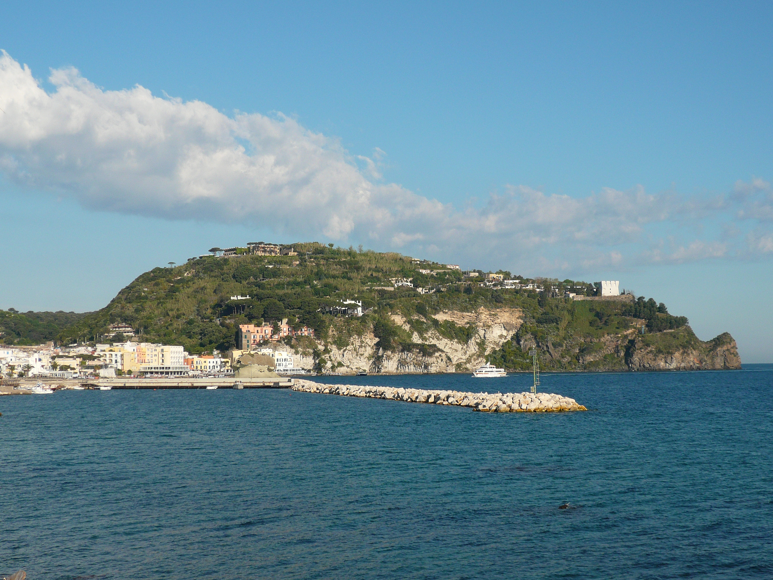 Monte Vico, Lacco Ameno, Ischia. Acropolis of ancient polis of Pithekoussai (Pithecusae).